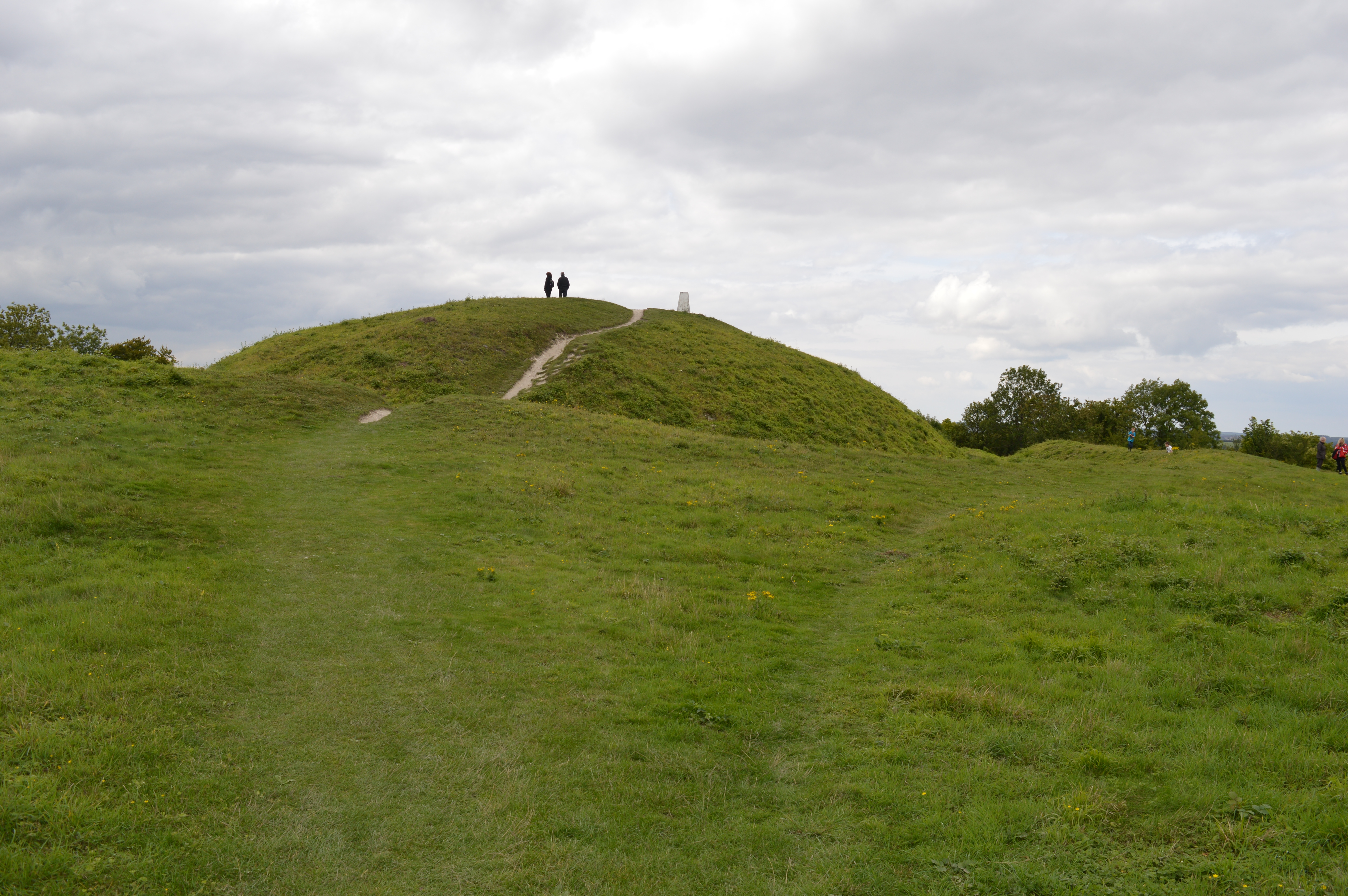 Totternhoe Castle. The moat and bailey of a former Norman Castle in Totternhoe, Bedfordshire